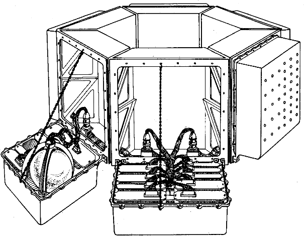 Ranger probe packaging